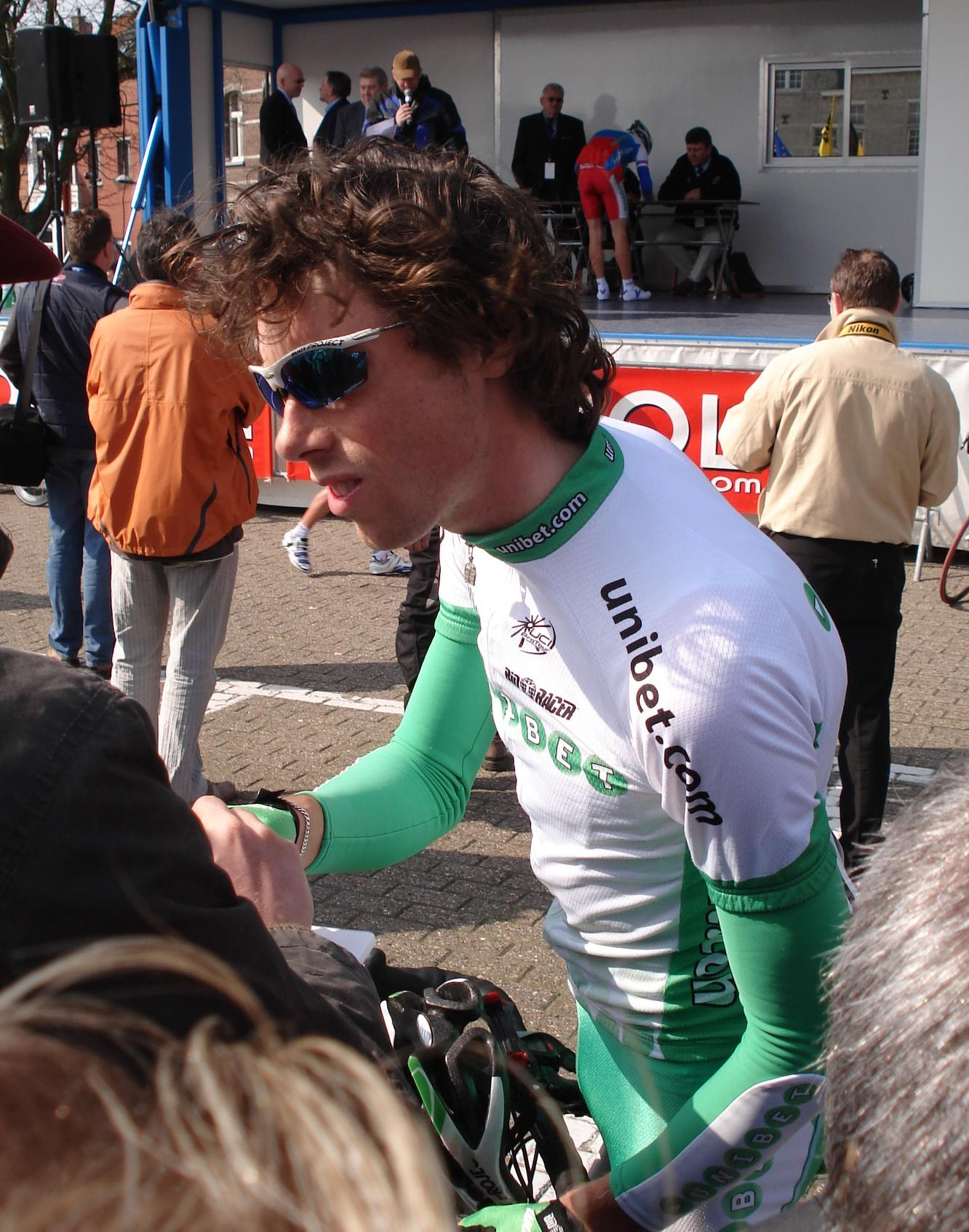 Own work. From Start Brabantse Pijl 2007.